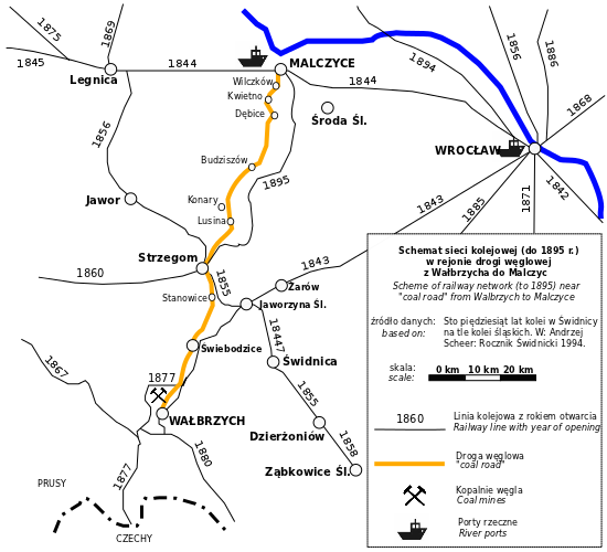 Scheme of railway network (to 1895) near "coal road" from Walbrzych to Malczyce.